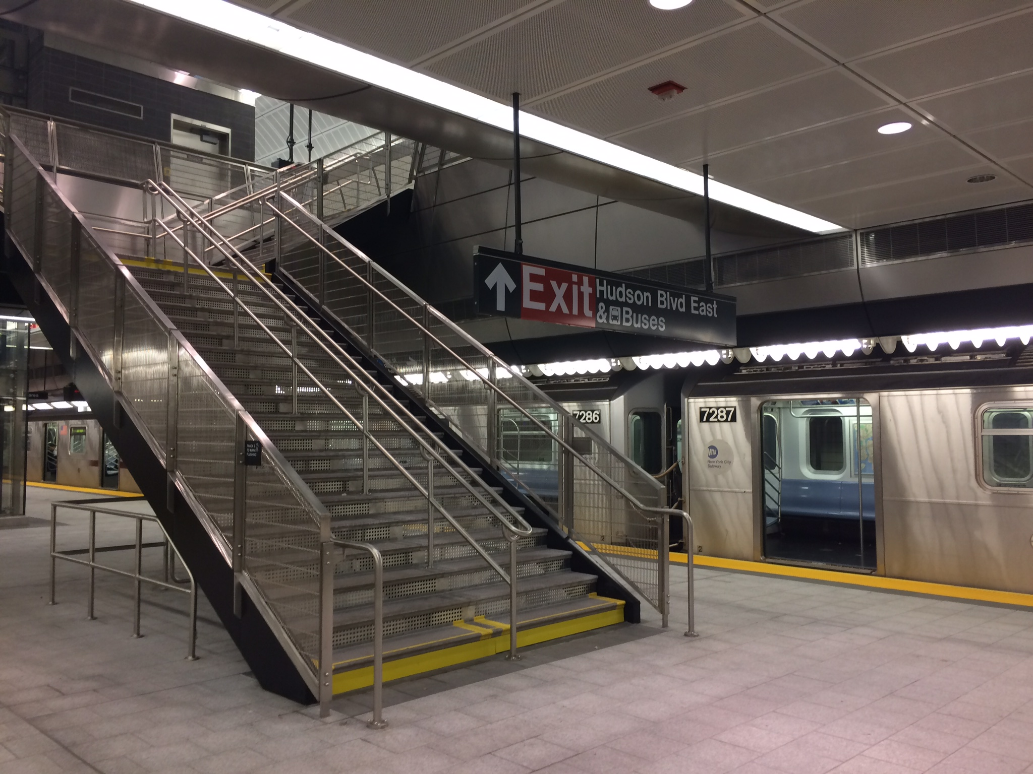 Train station in general.